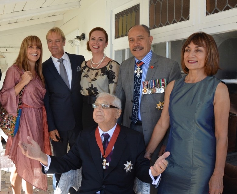 The Governor-General, Lt Gen The Rt Hon Sir Jerry Mateparae (standing, right) with Sir Peter Alderidge Williams (seated), Lady Heeni Phillips-Williams (right), and family at Sir Peter's home on 11 April 2015 after his knighthood investiture there.